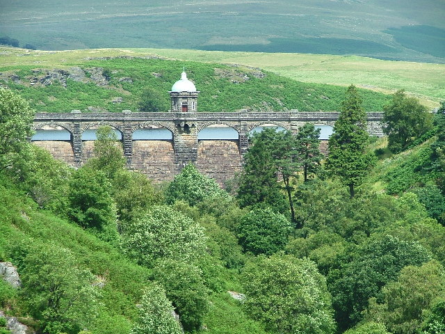 Craig Goch Dam, Elan Valley. At the head of the Elan Valley Craig Goch is the northern most dam capturing the waters of the valley, to supply Birmingham.